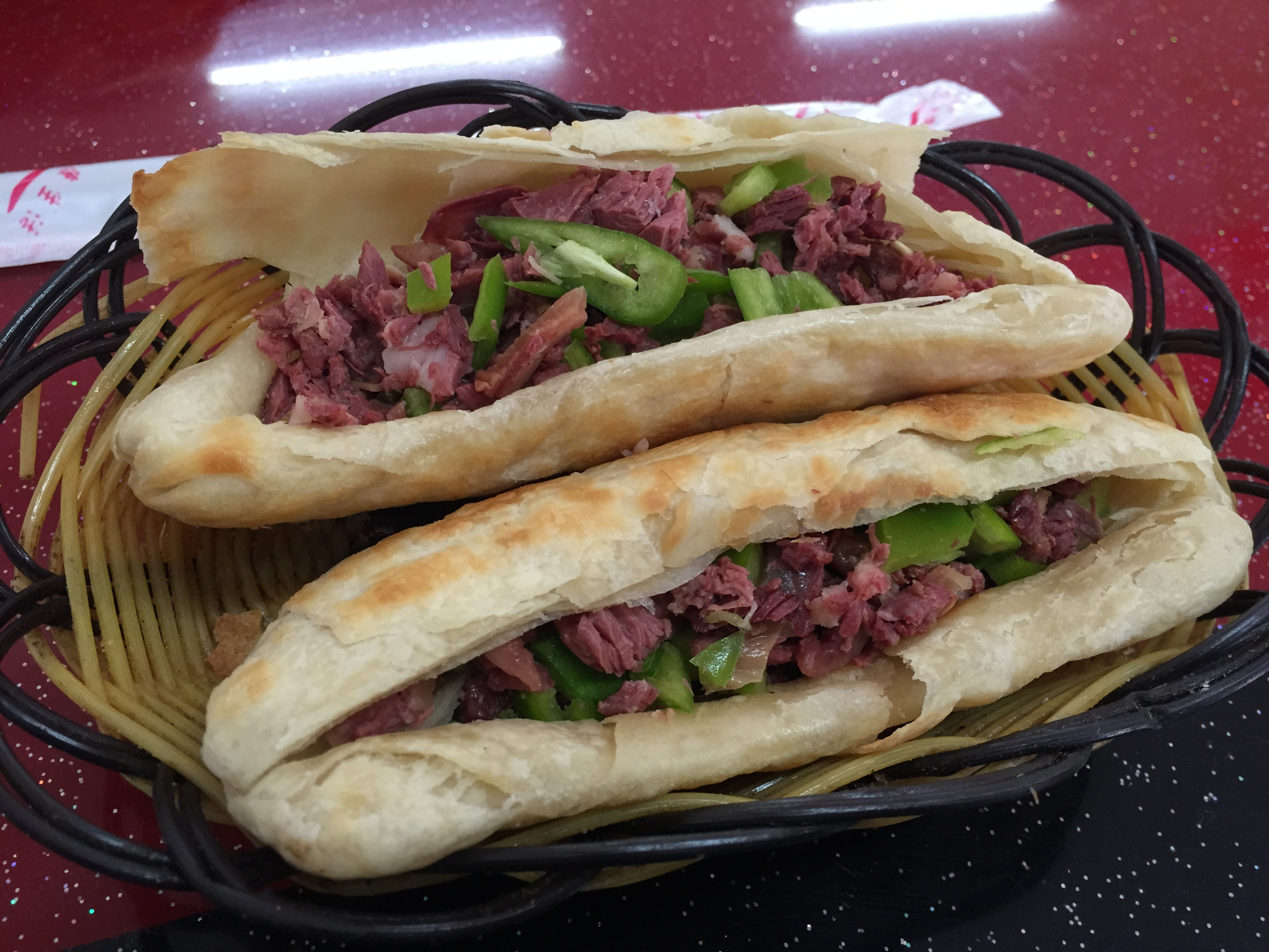 This one is sold in Beijing, with additional green pepper.